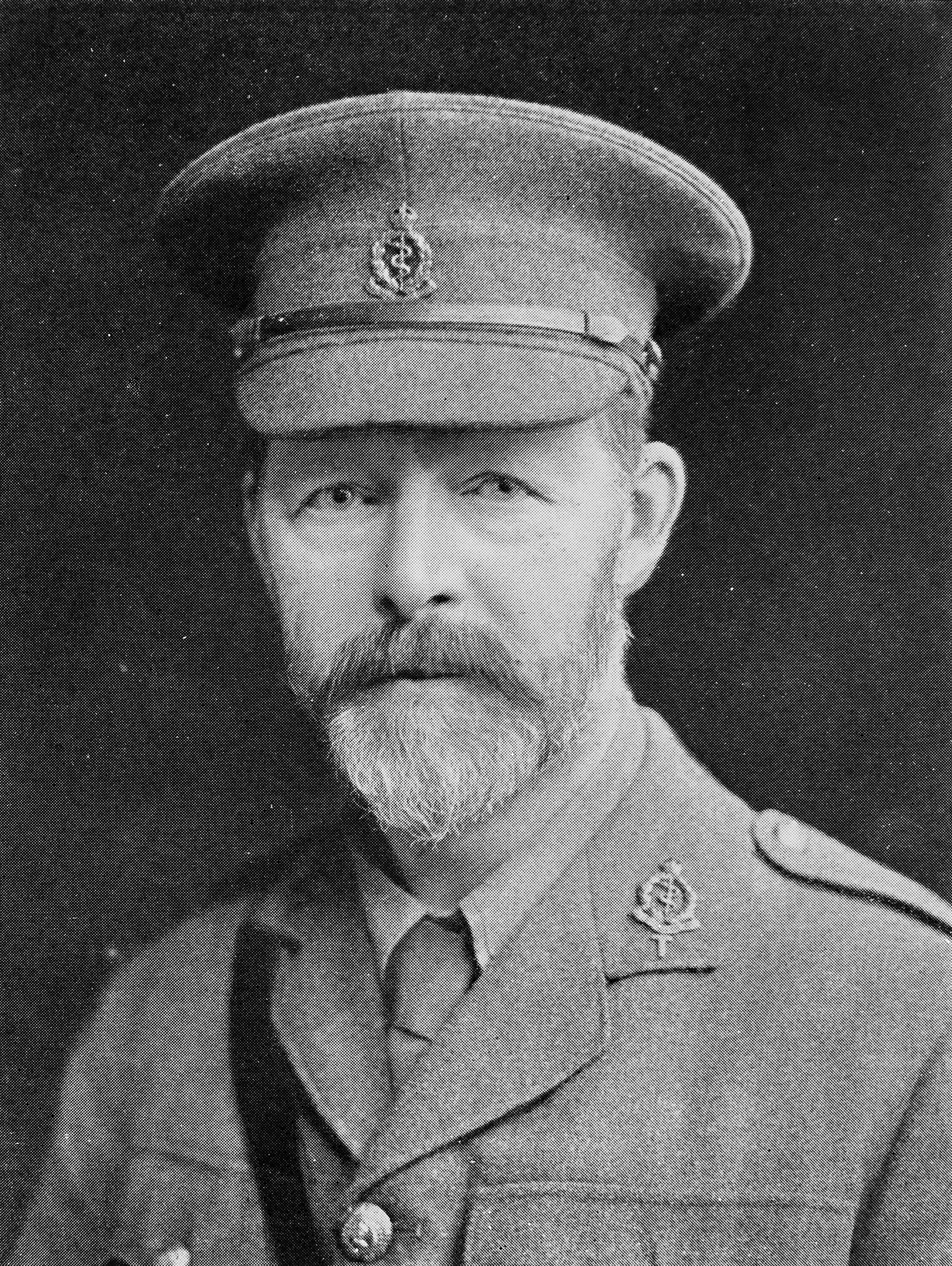 Wellcome Images Keywords: Holland, C. Thurston